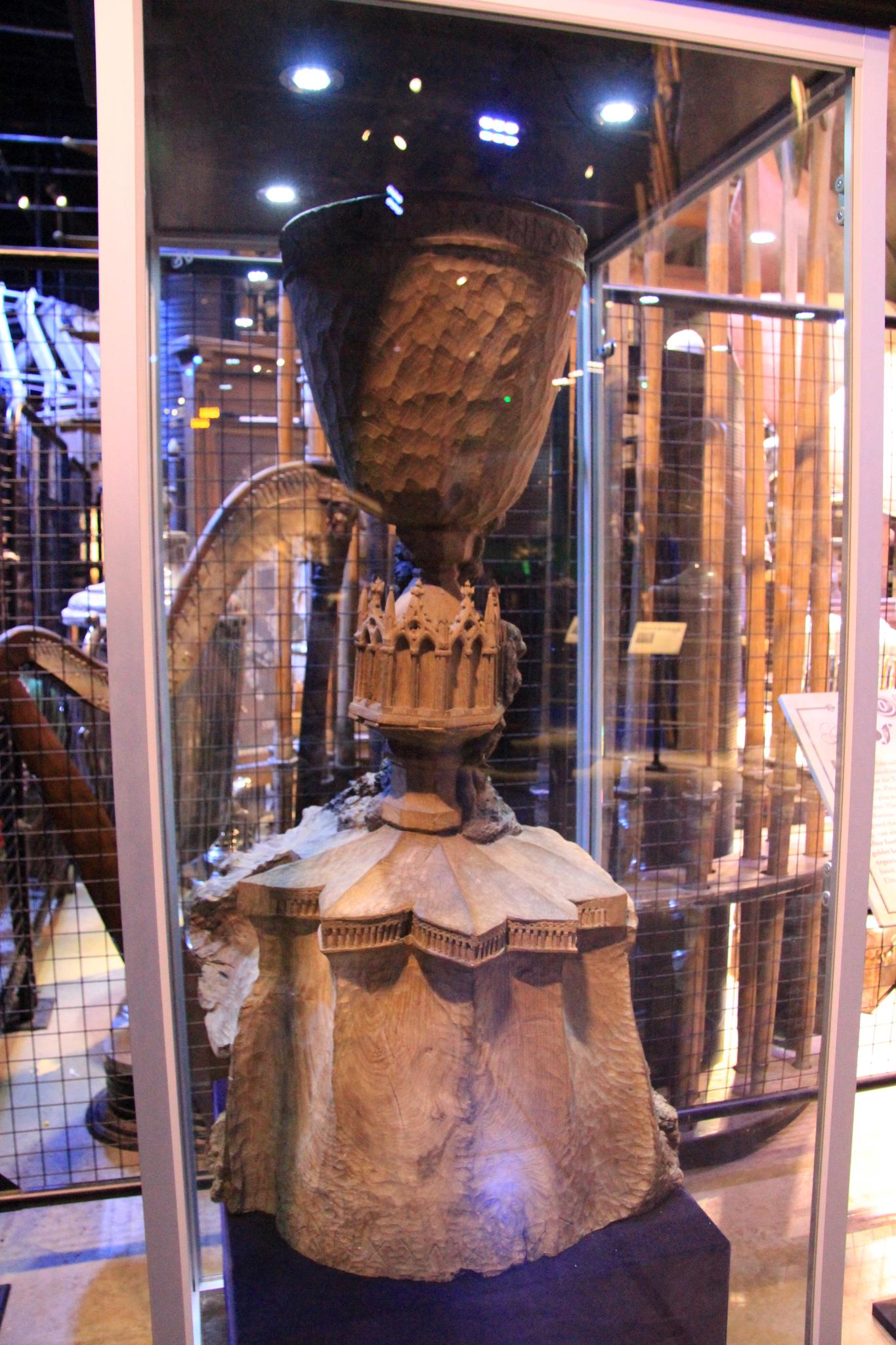 Warner Bros. Studio Tour London: The Making of Harry Potter.